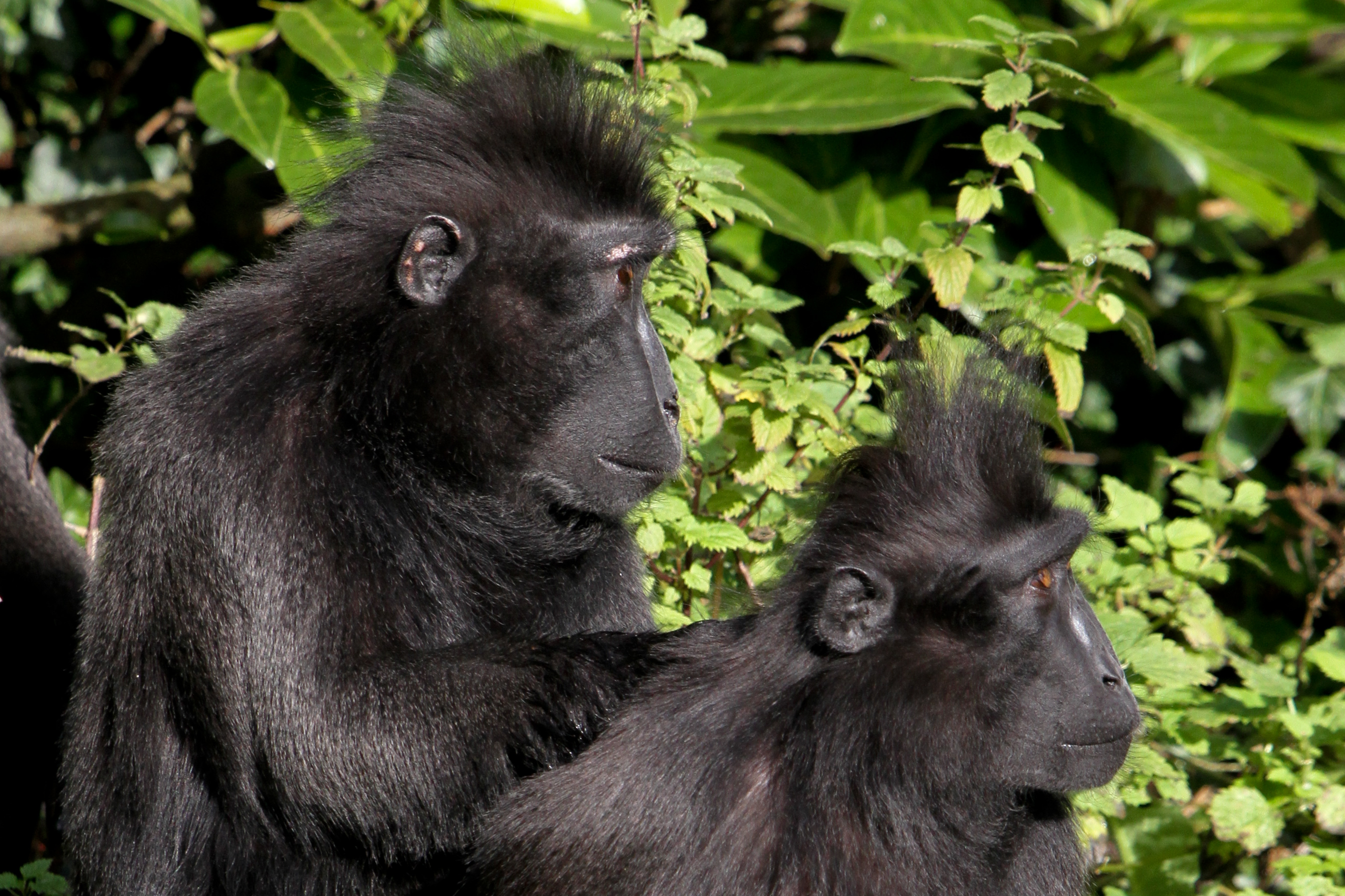 Macaca nigra in Diergaarde Blijdorp